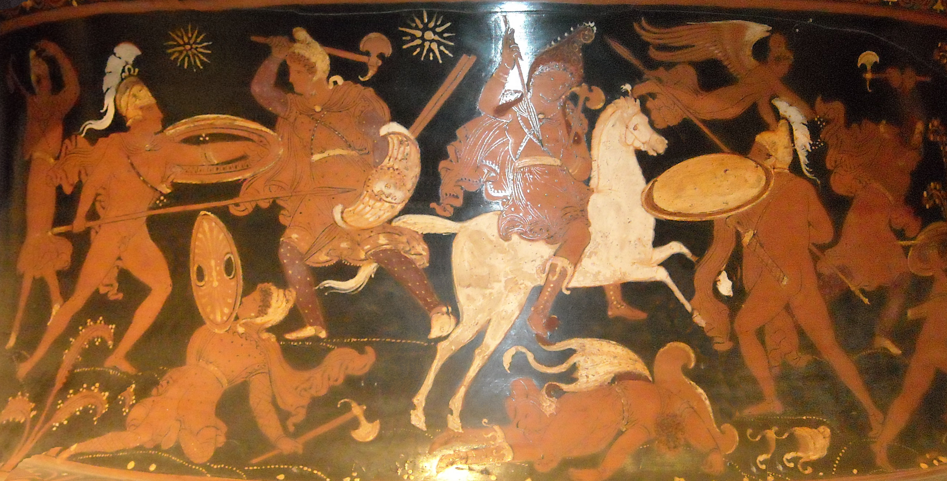 Darius vase Persians fighting Greeks